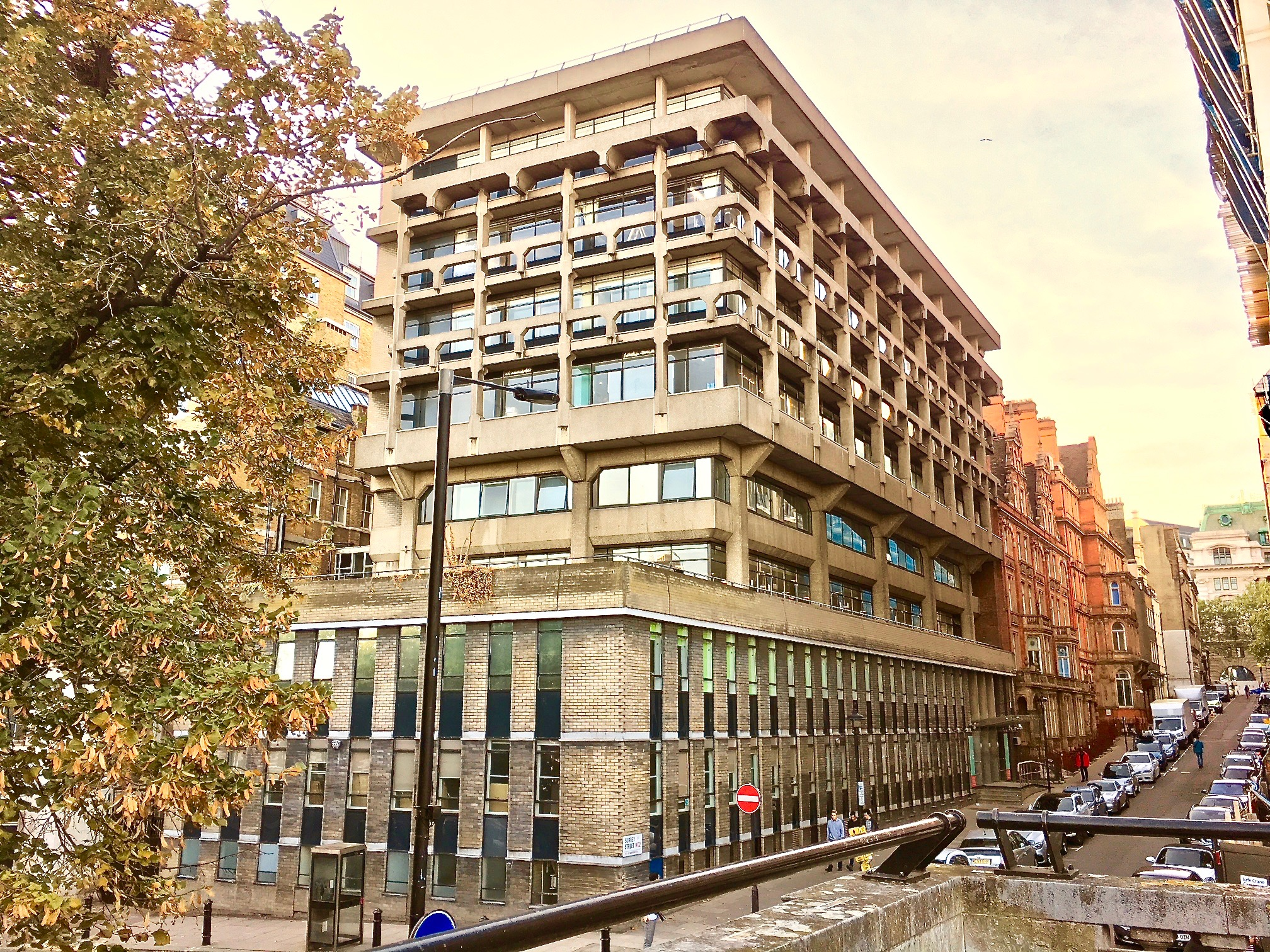 This photograph of the Macadam Building, King's College London on the Embankment at Surrey Street (and named after Sir Ivison Macadam), was taken in September 2018.